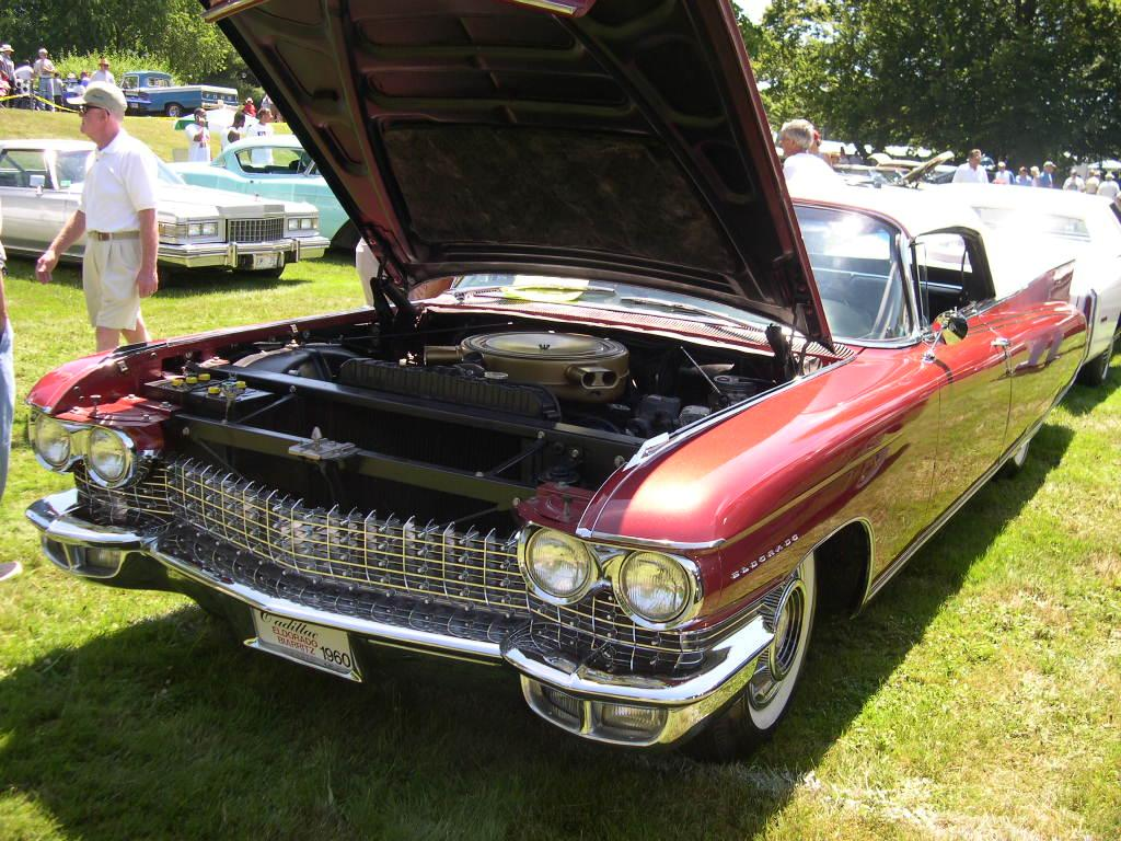 1960 Cadillac Eldorado Biarritz Source: Photographed at the Bay State Antique Automobile Club's July 10, 2005 show at the Endicott Estate in Dedham, MA by User:Sfoskett